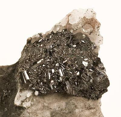 Pearceite-T2ac Locality: Uchucchacua Mine, Oyon Province, Lima Department, Peru (Locality at ) Size: 4.4 x 3.7 x 1.9 cm. Pearceite-T2ac (also known as Arsenpolybasite) is a polytype of pearceite and is a rare silver, copper, arsenic, antimony sulfosalt. This fine and rich specimen from the Uchucchacua Mine features a 1.4 cm, mounded cluster of splendent, metallic-gray arsenpolybasite crystals jauntily perched on a sliver of quartz on a sculptural matrix of sulfides, which includes scintillating vein of arsenpolybasite crystals. Ex. David Ellis Collection.